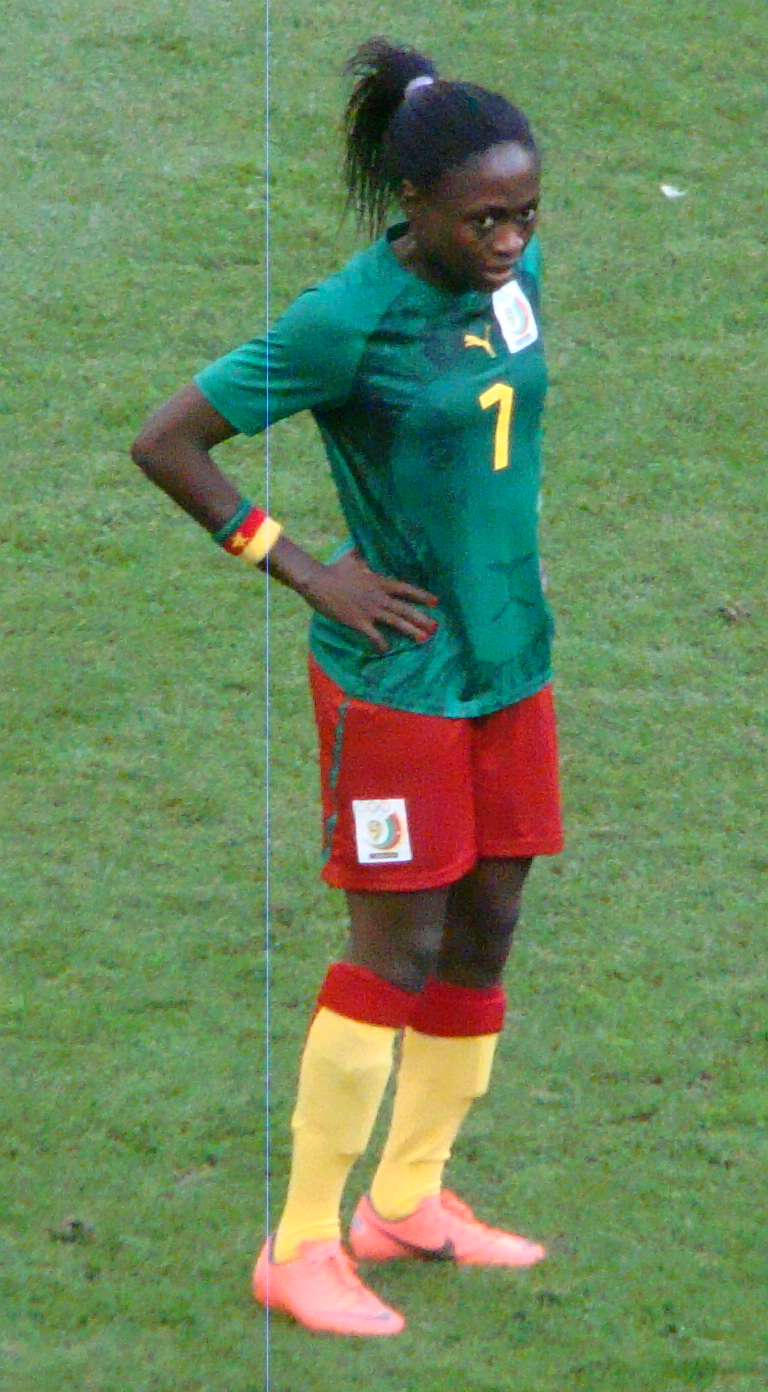 Cameroon footballer Gabrielle Onguene in the match against Brazil at the Millenium Stadium on 25 July 2012 during the 2012 Summer Olympics.